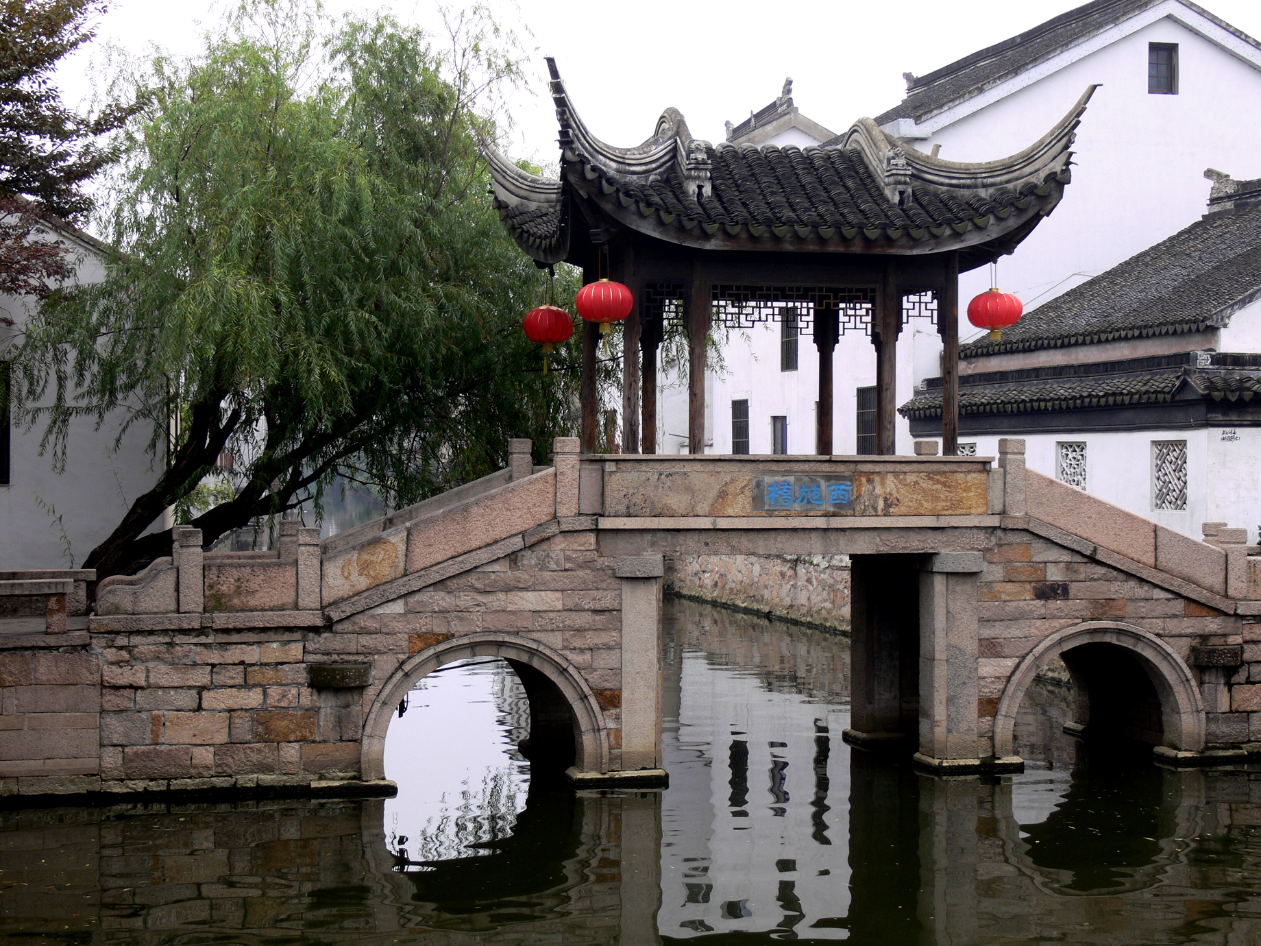 Xi Shi bridge, town of Mudu, Suzhou city苏州木渎古镇西施桥